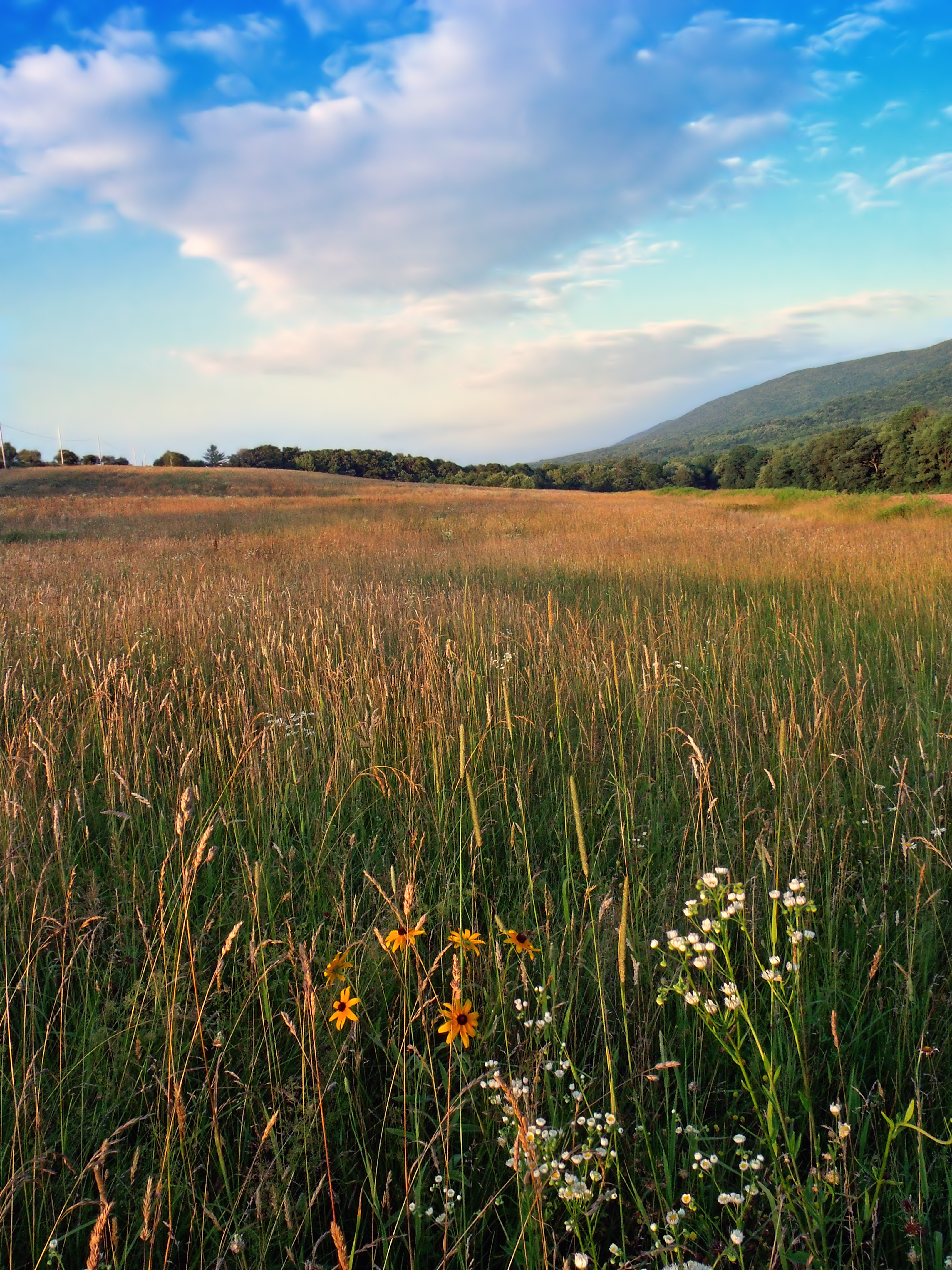 Late-day light, Mifflin Township, Columbia County.